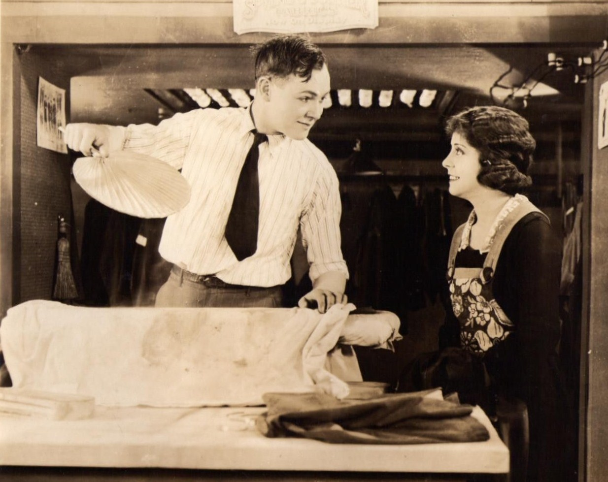 Charles Ray and Ethel Grandin in the film A Tailor-Made Man (1922) - publicity still (cropped)